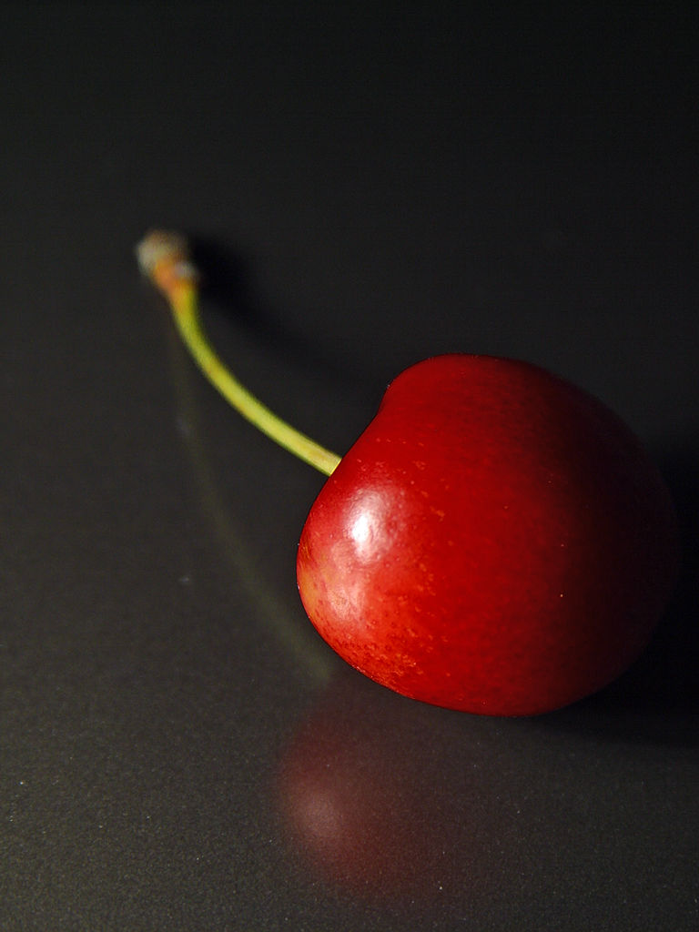 a Cherry